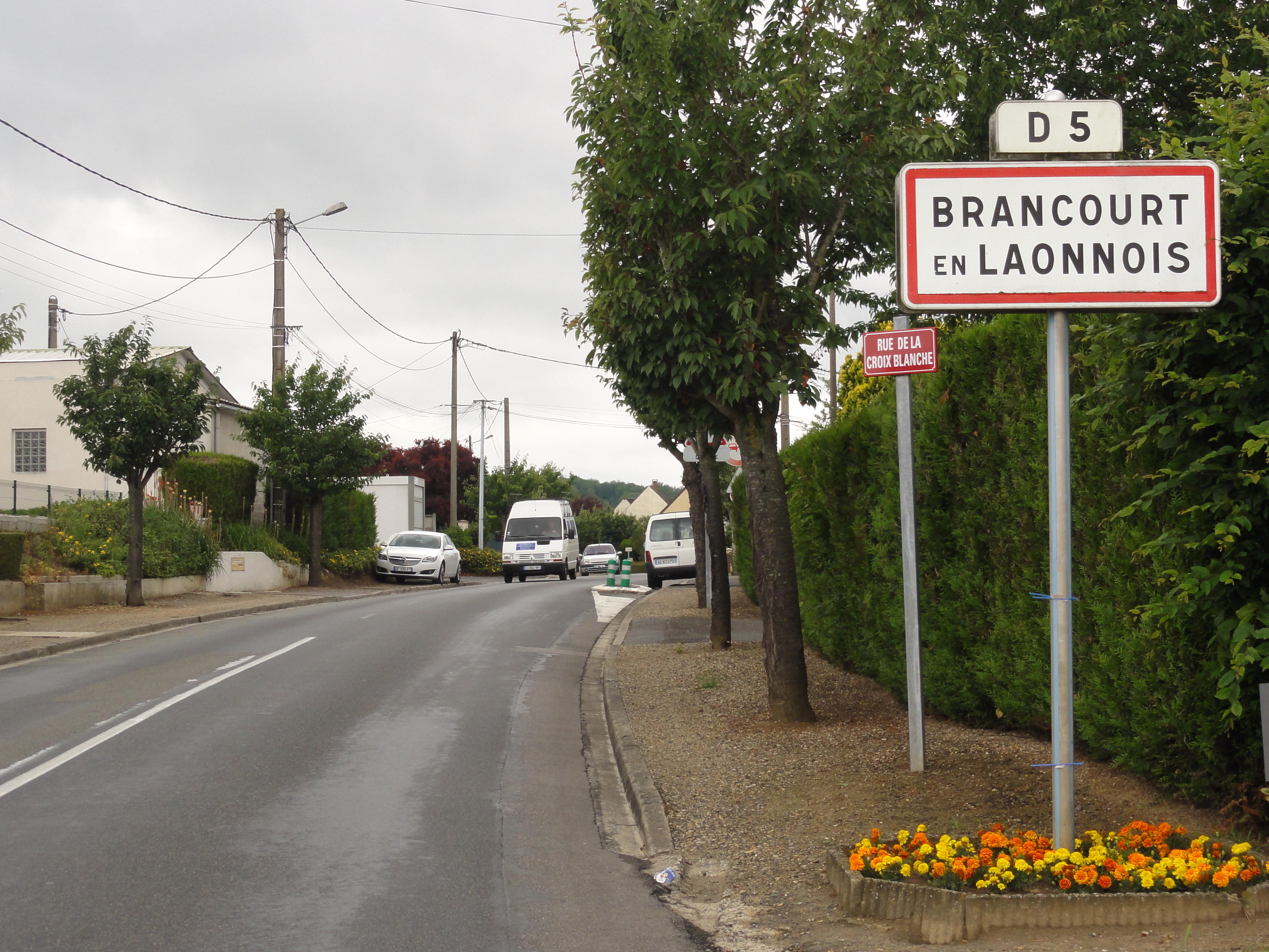 Brancourt-en-Laonnais (Aisne) city limit sign